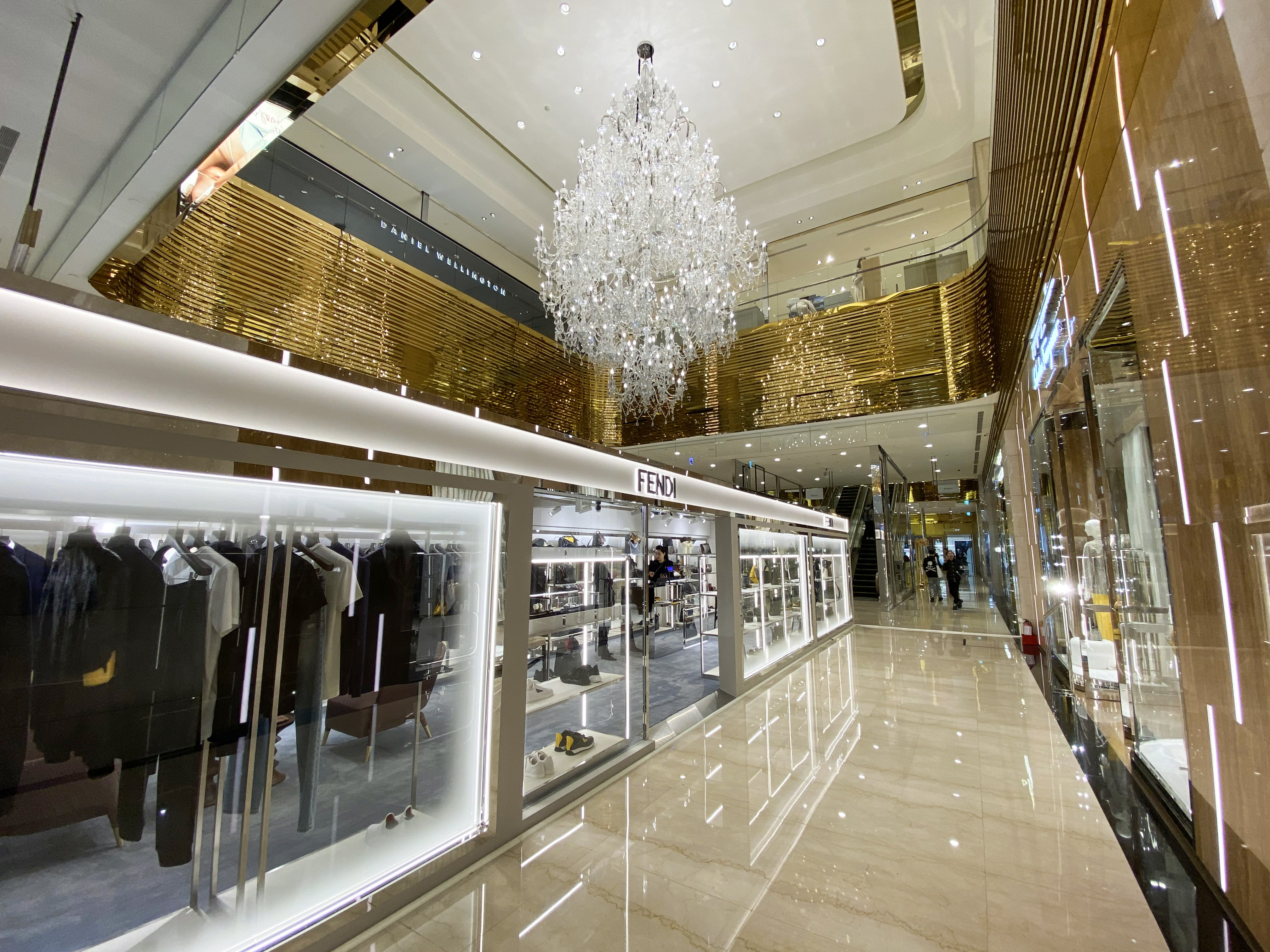 Cathay Landmark Breeze XinYi